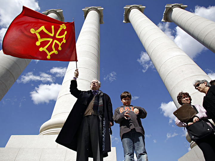 Enric Garriga Trullols waving the Occitan flag on the opening of the 4 catalan columns monument in Montjuïc.